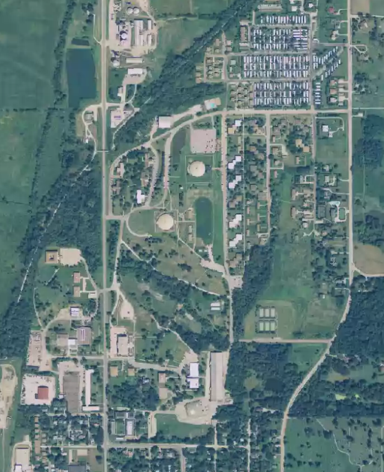 Aerial photograph of Maharishi University of Management in Fairfield, Iowa.